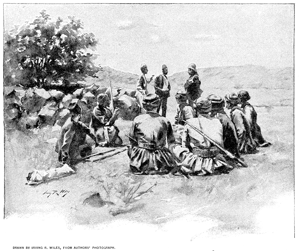 Parleying with the Kurdish party at the spring.